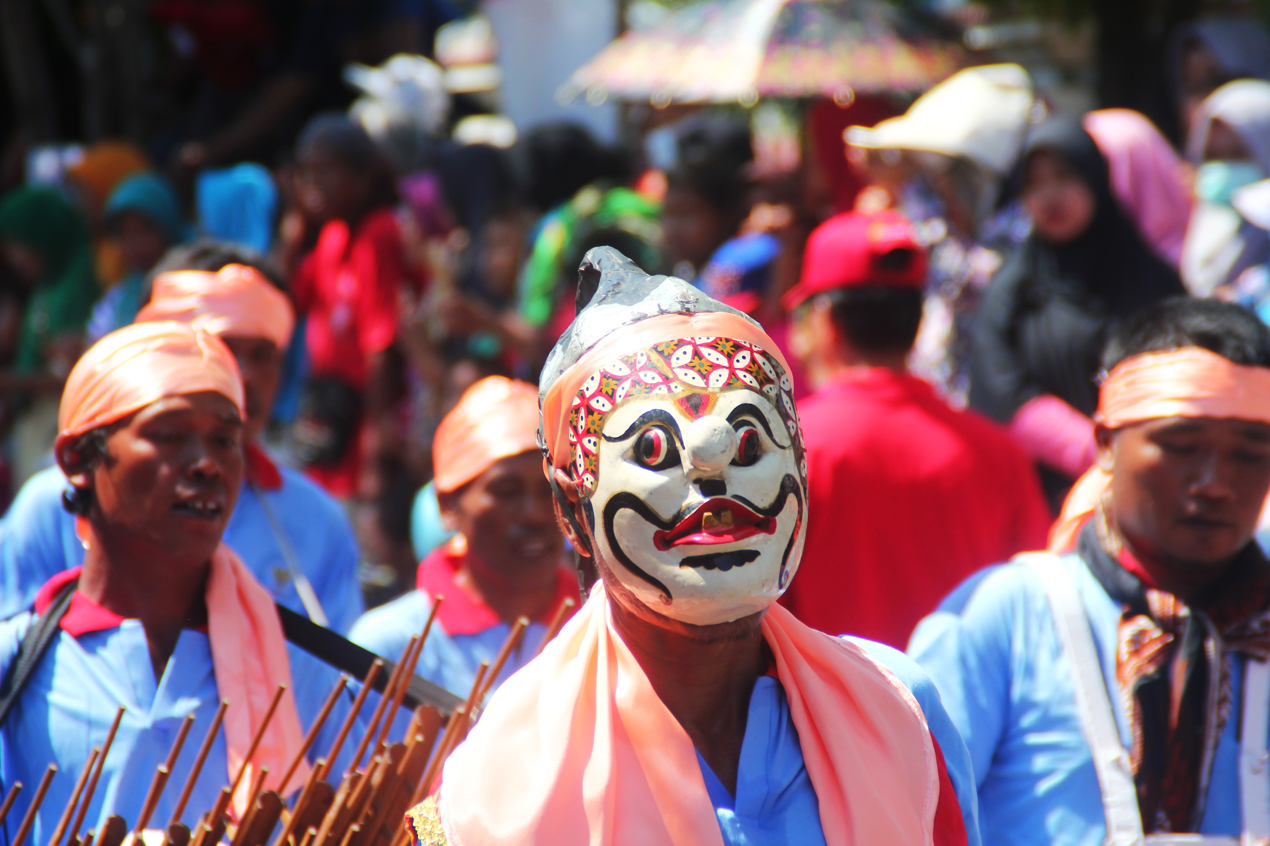 Performance of Topeng Dance from Indonesia in indonesia independent day carnival